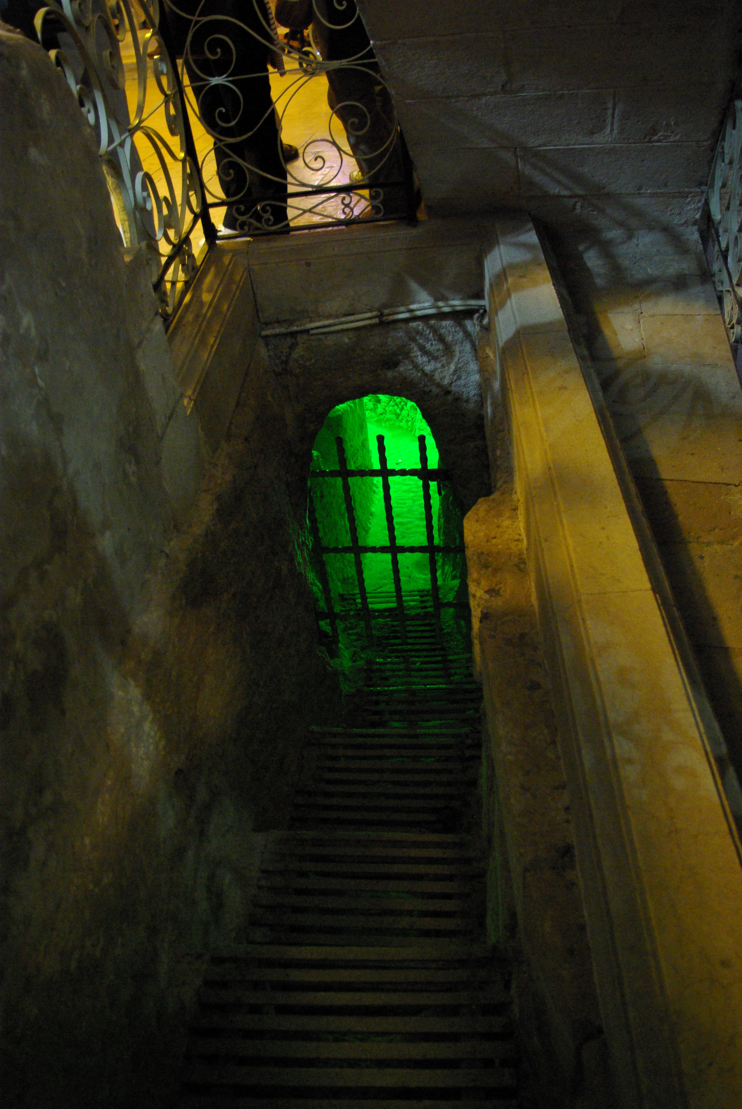 Church of St. Joseph, Nazareth, Israel